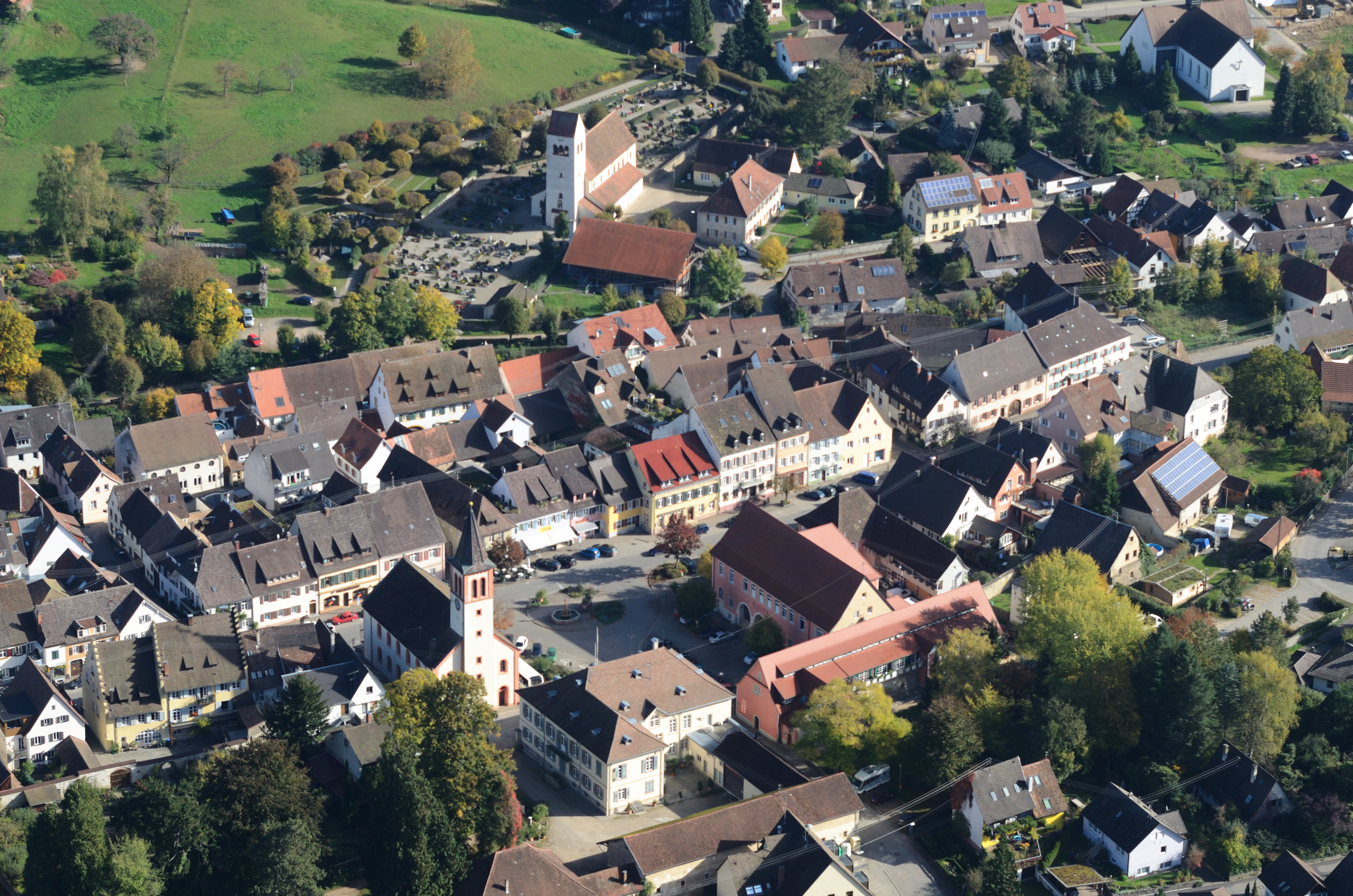 Aerial view at Sulzburg